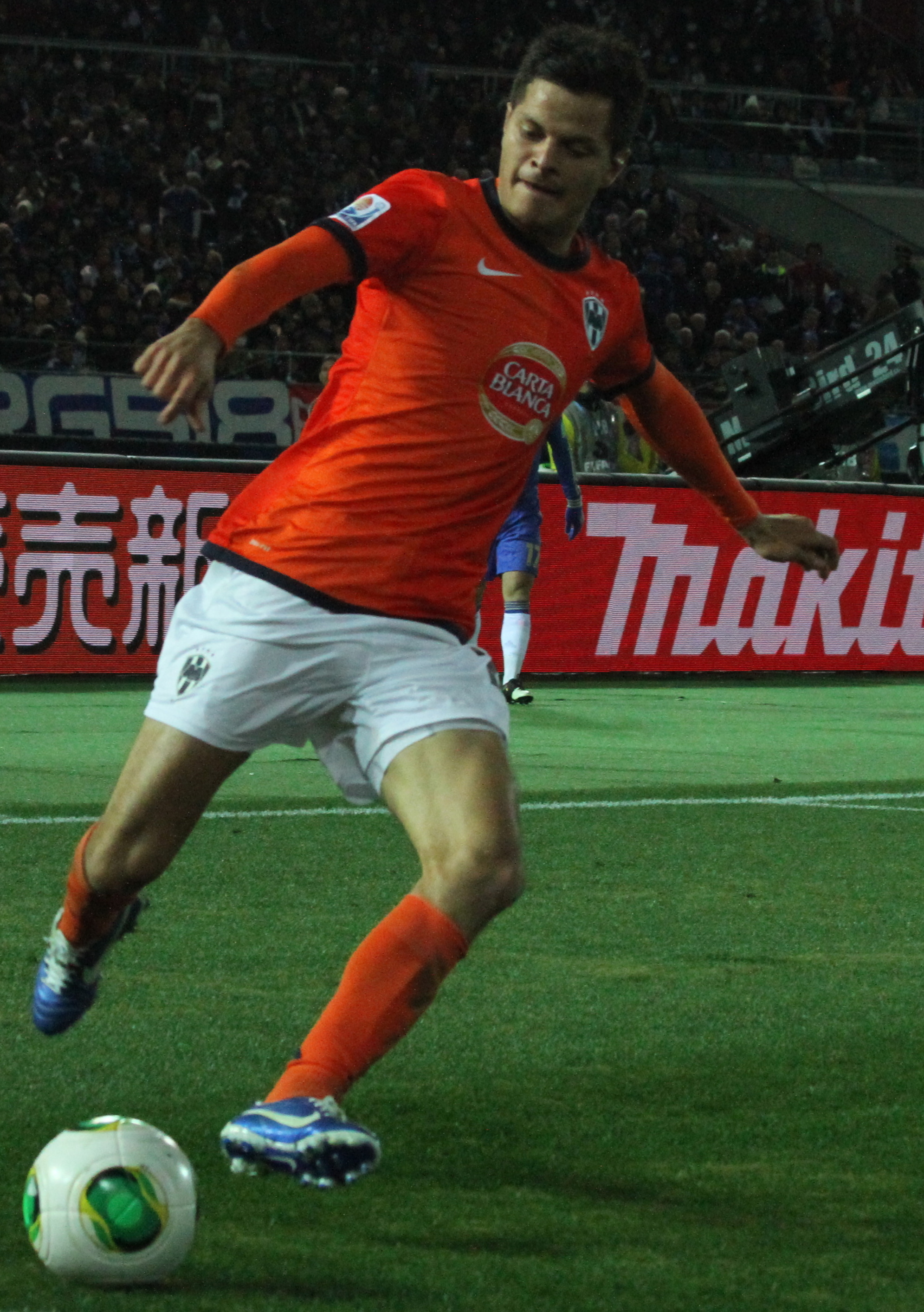 Sergio Perez of CF Monterrey